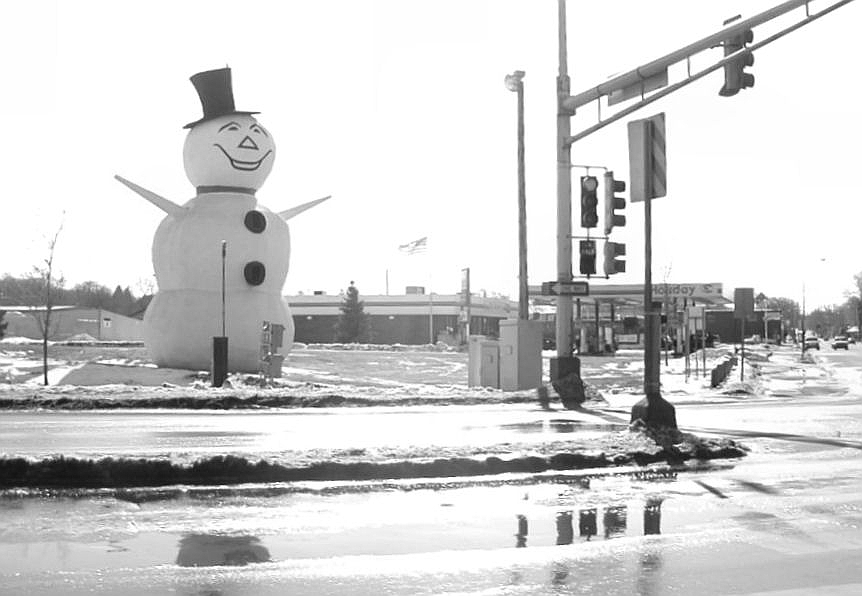 Taken by William Wesen. February 20, 2003